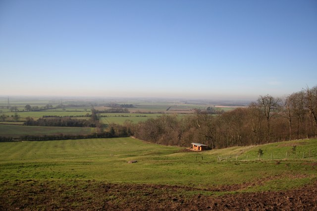 Coleby Low Fields View from the footpath at Far Lane down to Coleby Low Fields and the Trent valley, note the ridge & furrow in the first field